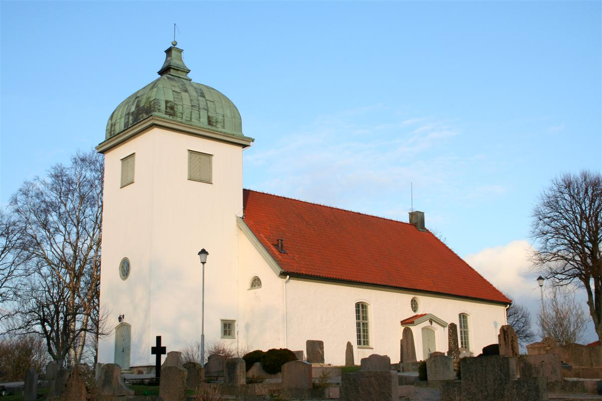 Jörlanda Church